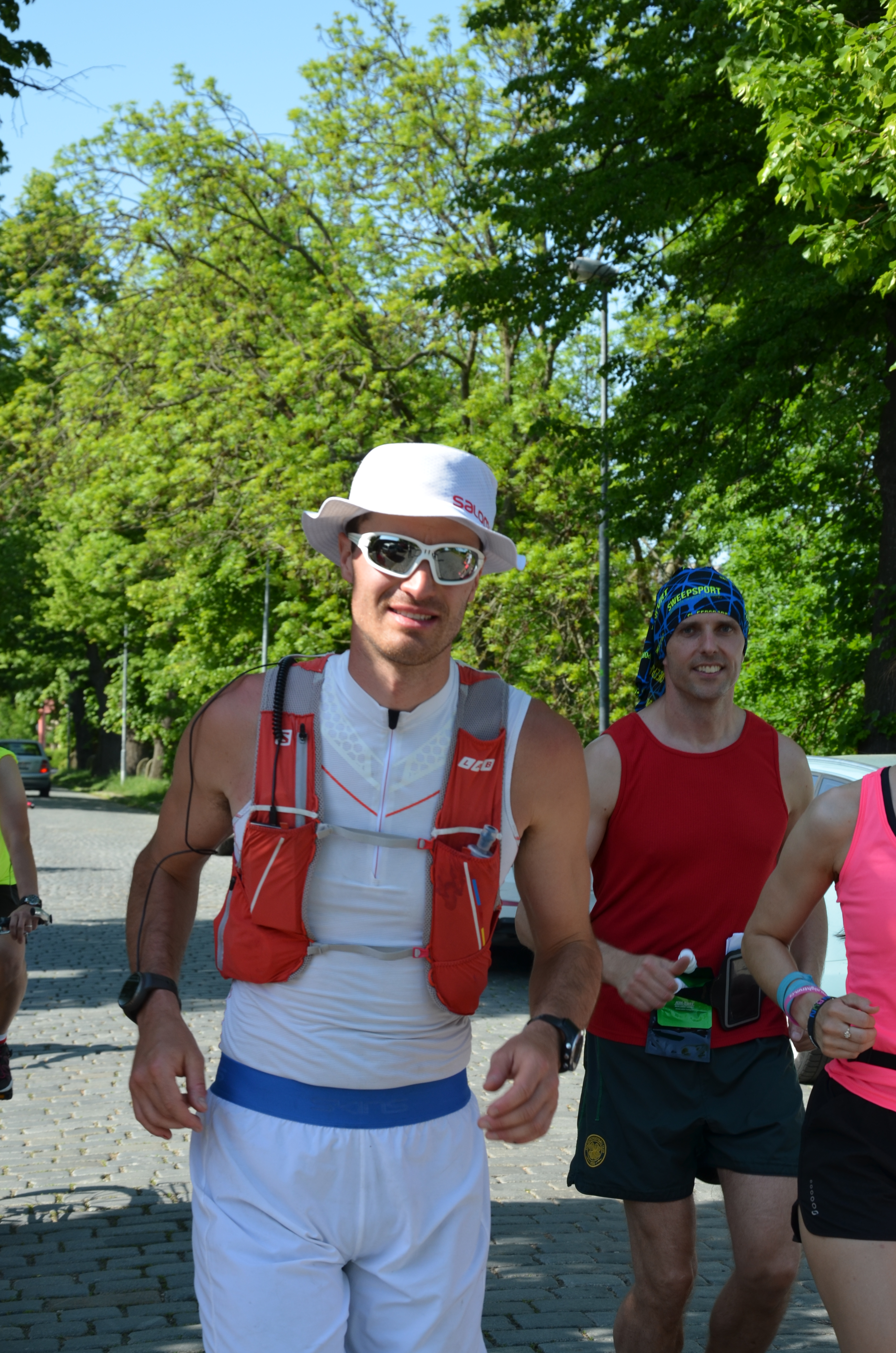 Running Štěpán Dvořák in Pardubice, Pardubice District.